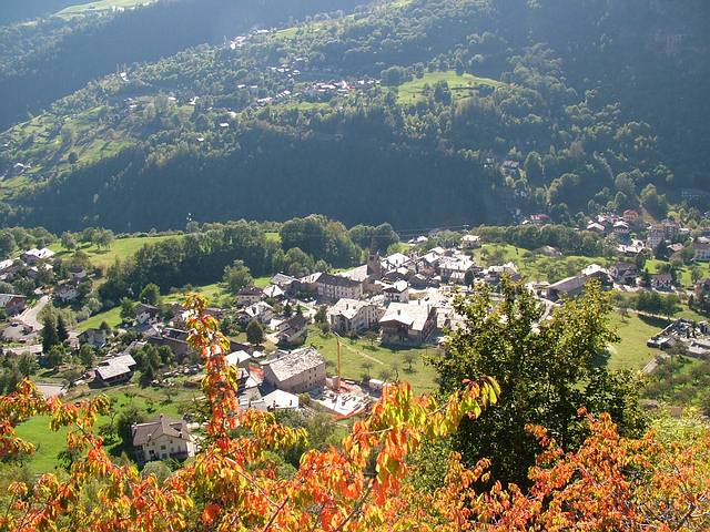 Overview of Antey-Saint-André (Aosta Valley, Italy)